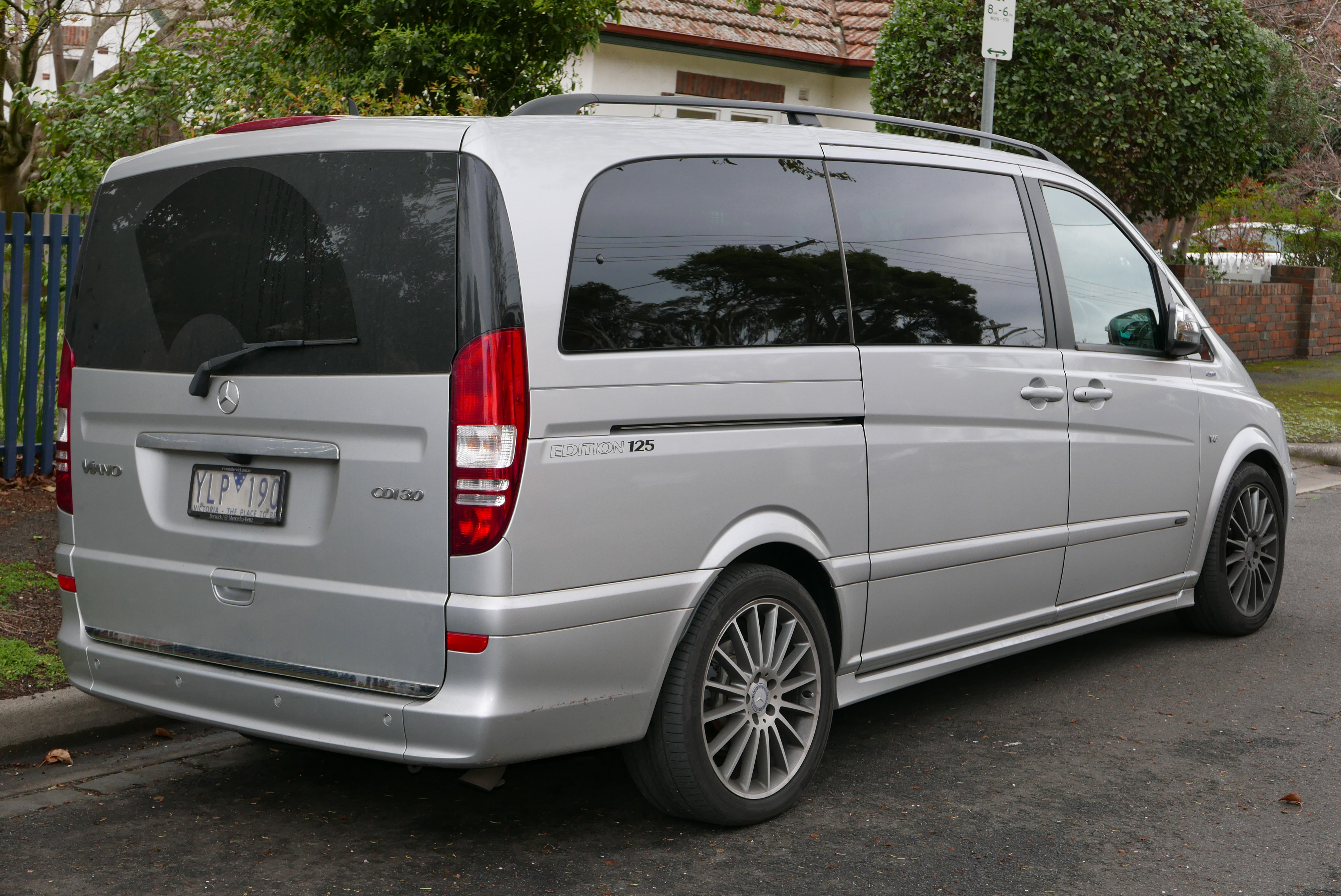 2011 Mercedes-Benz Viano (V 639 MY12) Edition 125 CDI 3.0 BlueEFFICIENCY van. Photographed in Hawthorn, Victoria, Australia. Vehicle registration enquiry results Jurisdiction Victoria Registration YLP190 Chassis code WDF63981323671112 Engine code 64289041158079 Compliance date 2011-09 Year of manufacture 2011